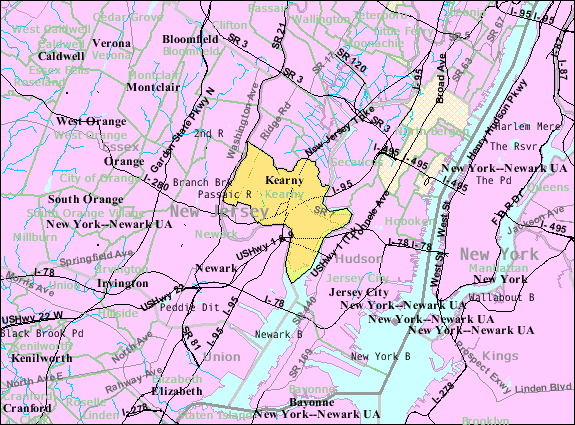 Census Bureau map of Kearny